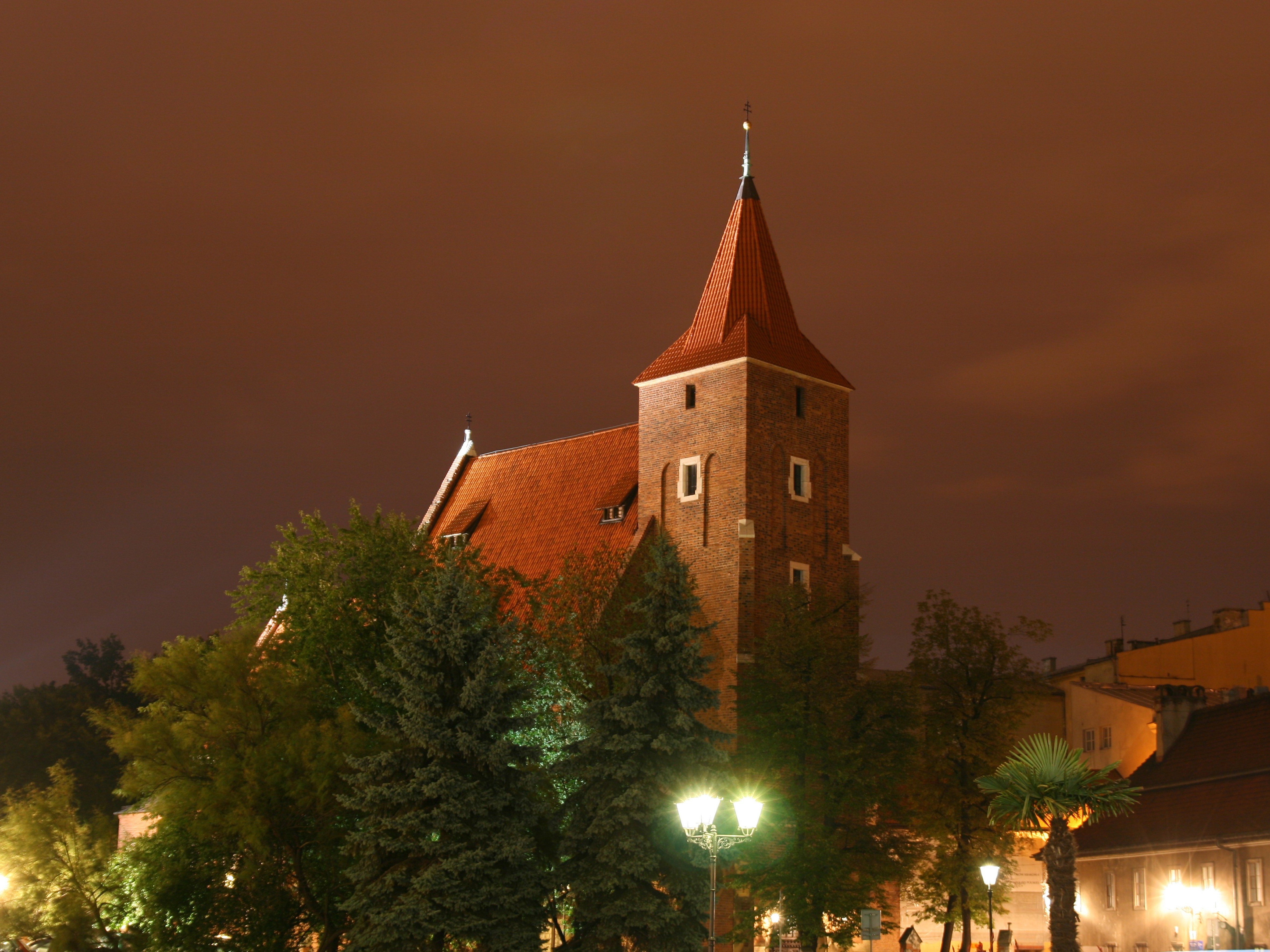 Holy Cross Church in Kraków (Poland) by night.